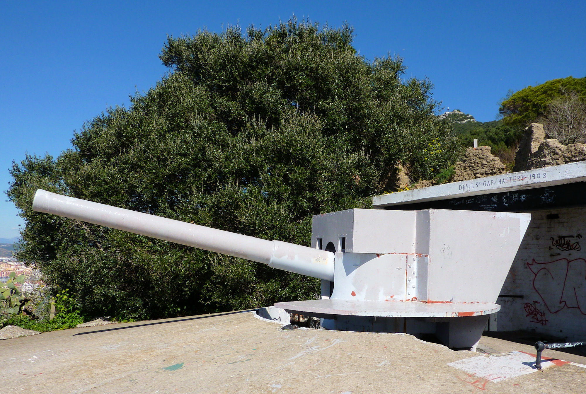 Standing on an earlier mortar site Devils Gap Battery was upgraded in 1902 by mounting two 6inch BL Mk. VII guns with a range of 6,000 yards. The guns saw action in the First World War and the Second World War. In 1954 the battery ceased its defence role but the 6-inch guns were retained.